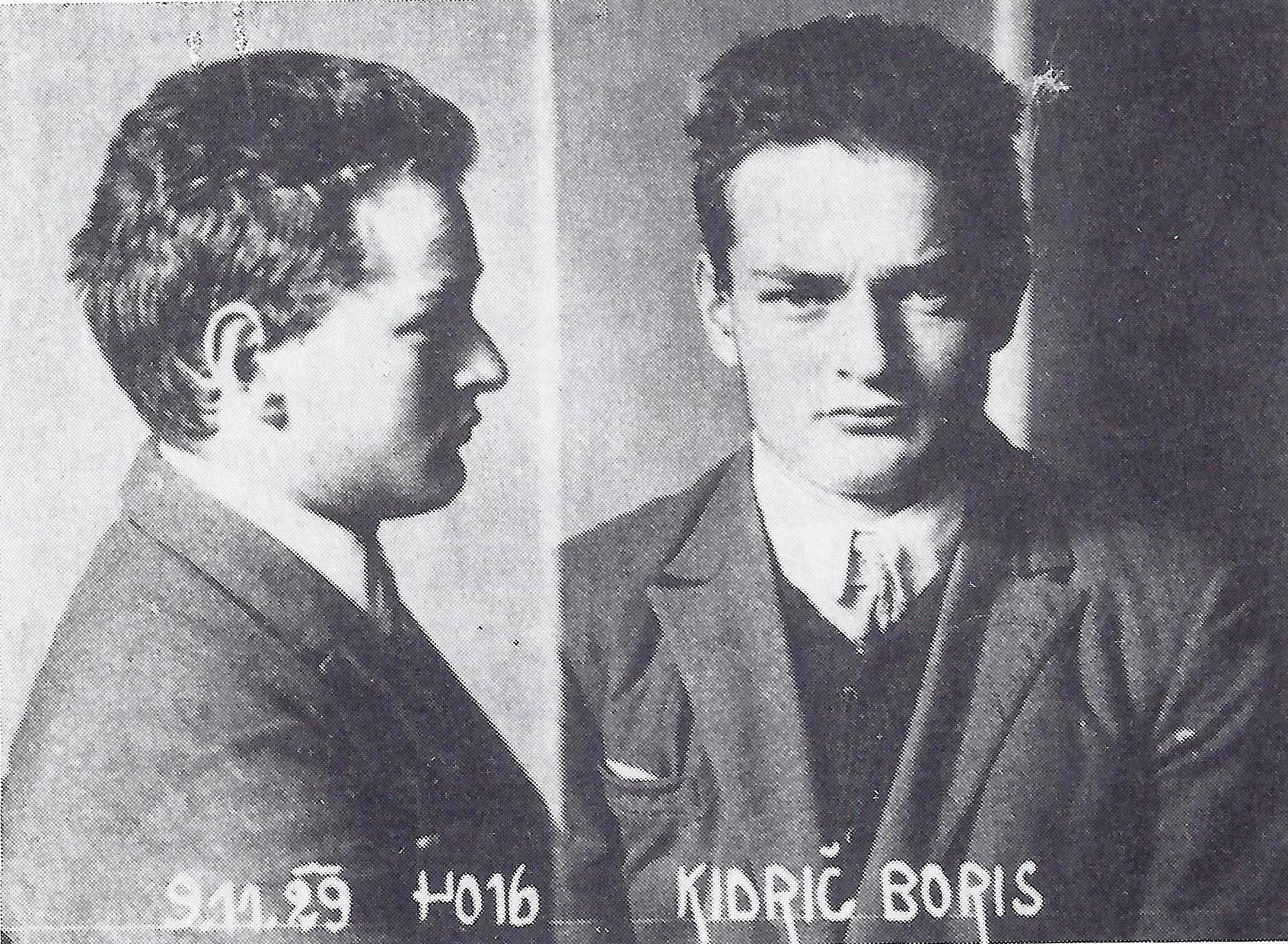 Boris Kidrič in police detention